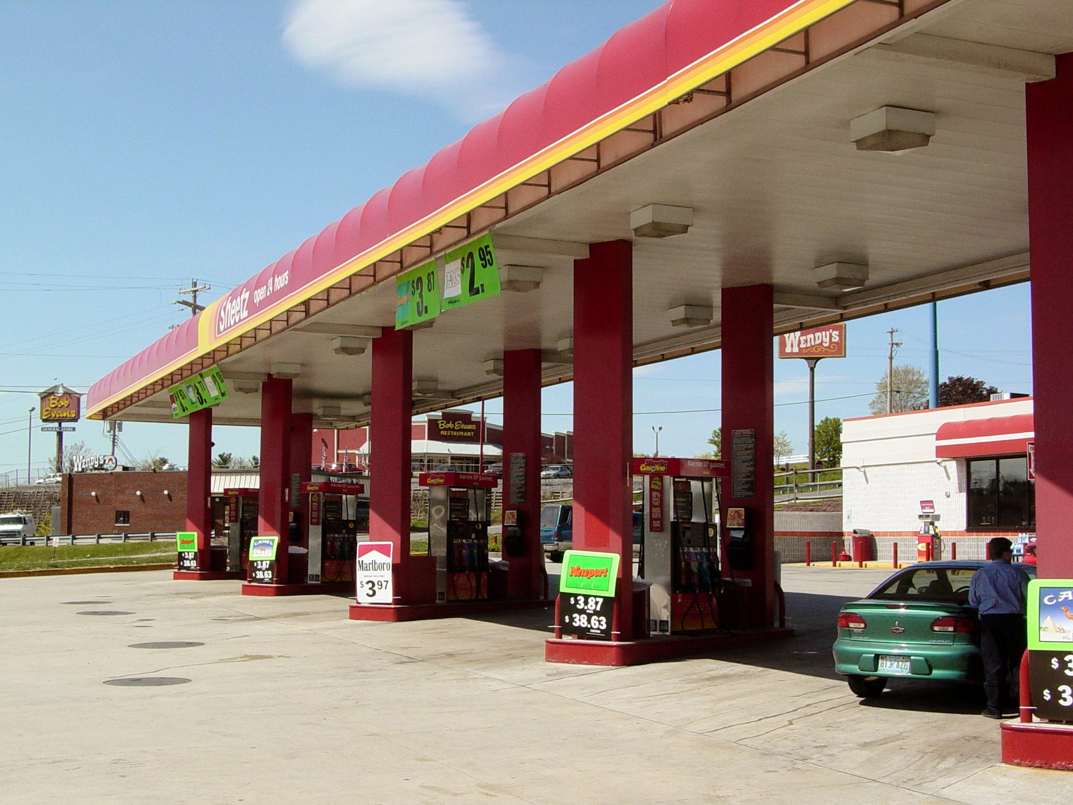 Canopy over the gas pumps at the Sheetz store in Breezewood, Pennsylvania.